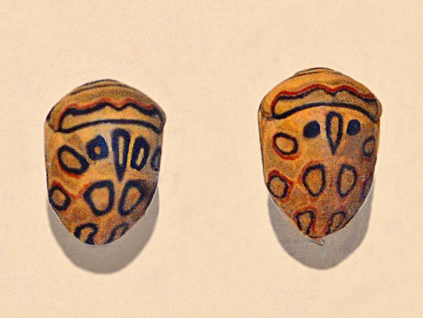 Sphaerocoris annulus. Museum specimen